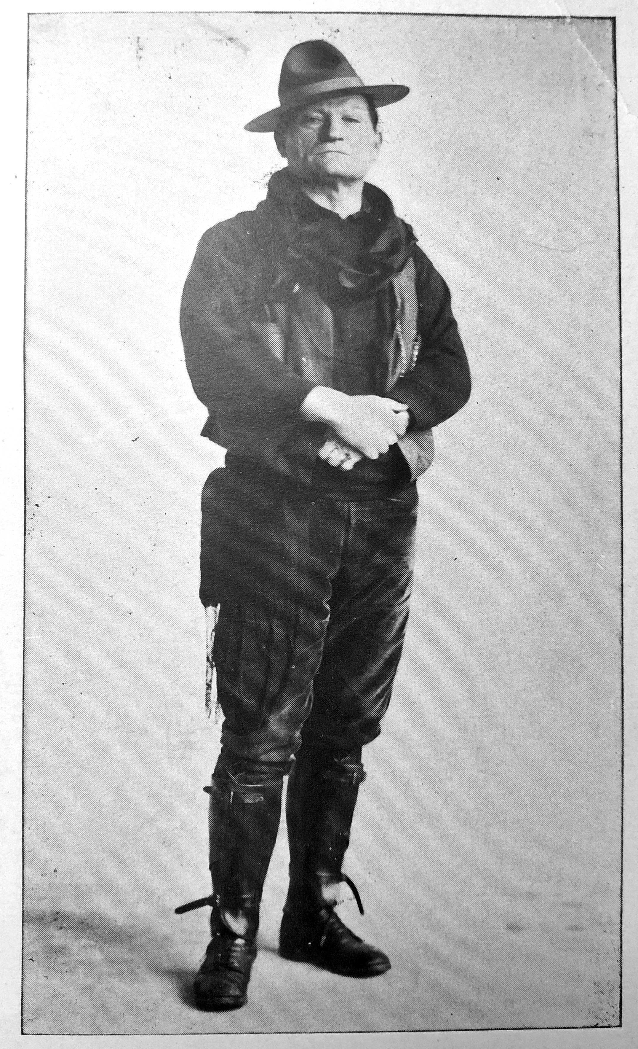 Writer, artist, geologist and naturalist Walter Shelley Phillips, circa 1930s.